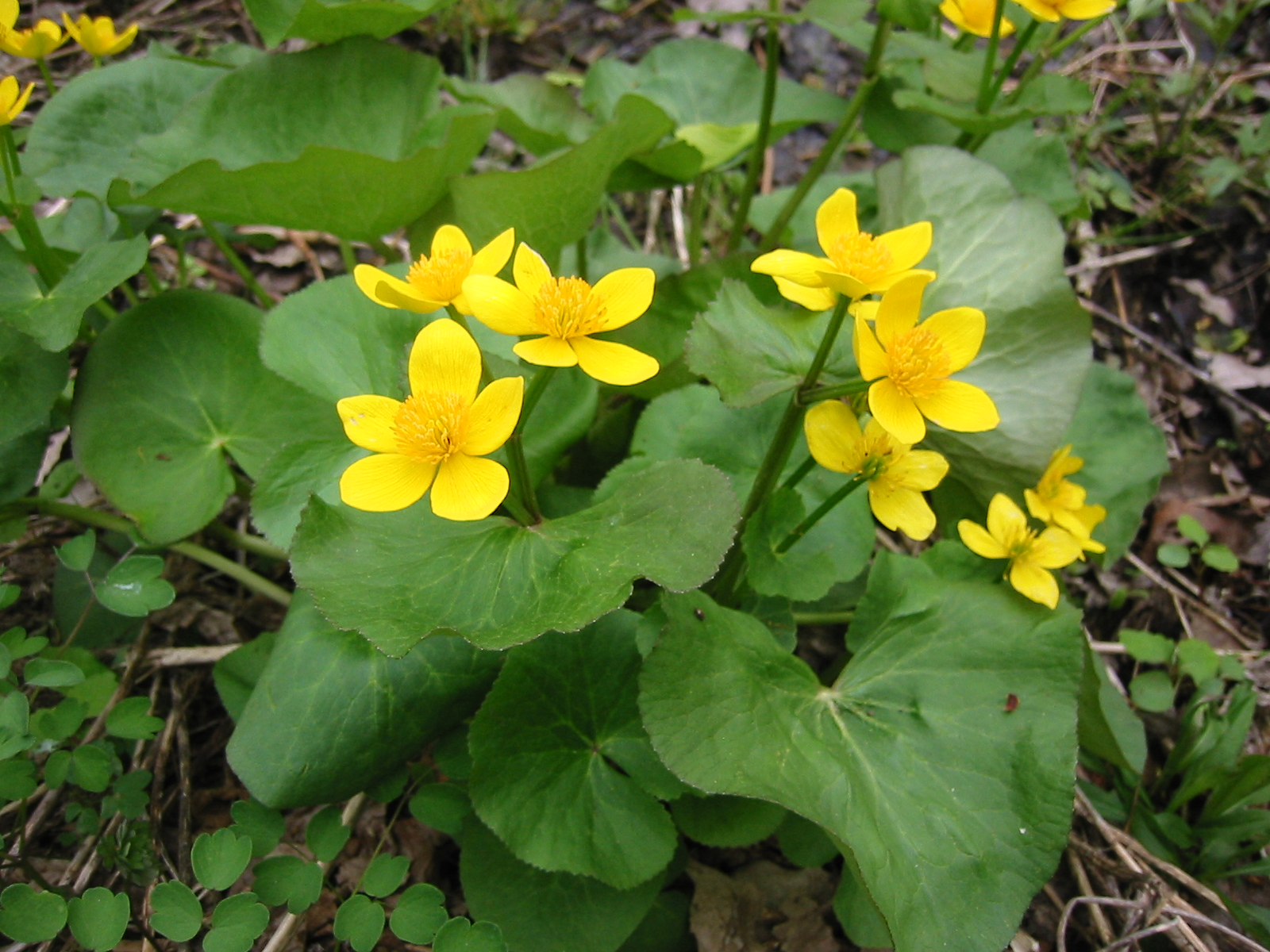 March Marigolds found growing on the trails at University of Michigan Matthaei Botanical Gardens.